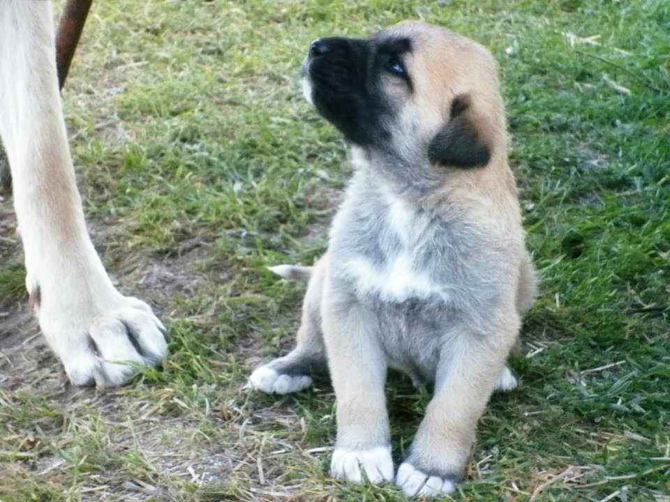 Malakli puppy